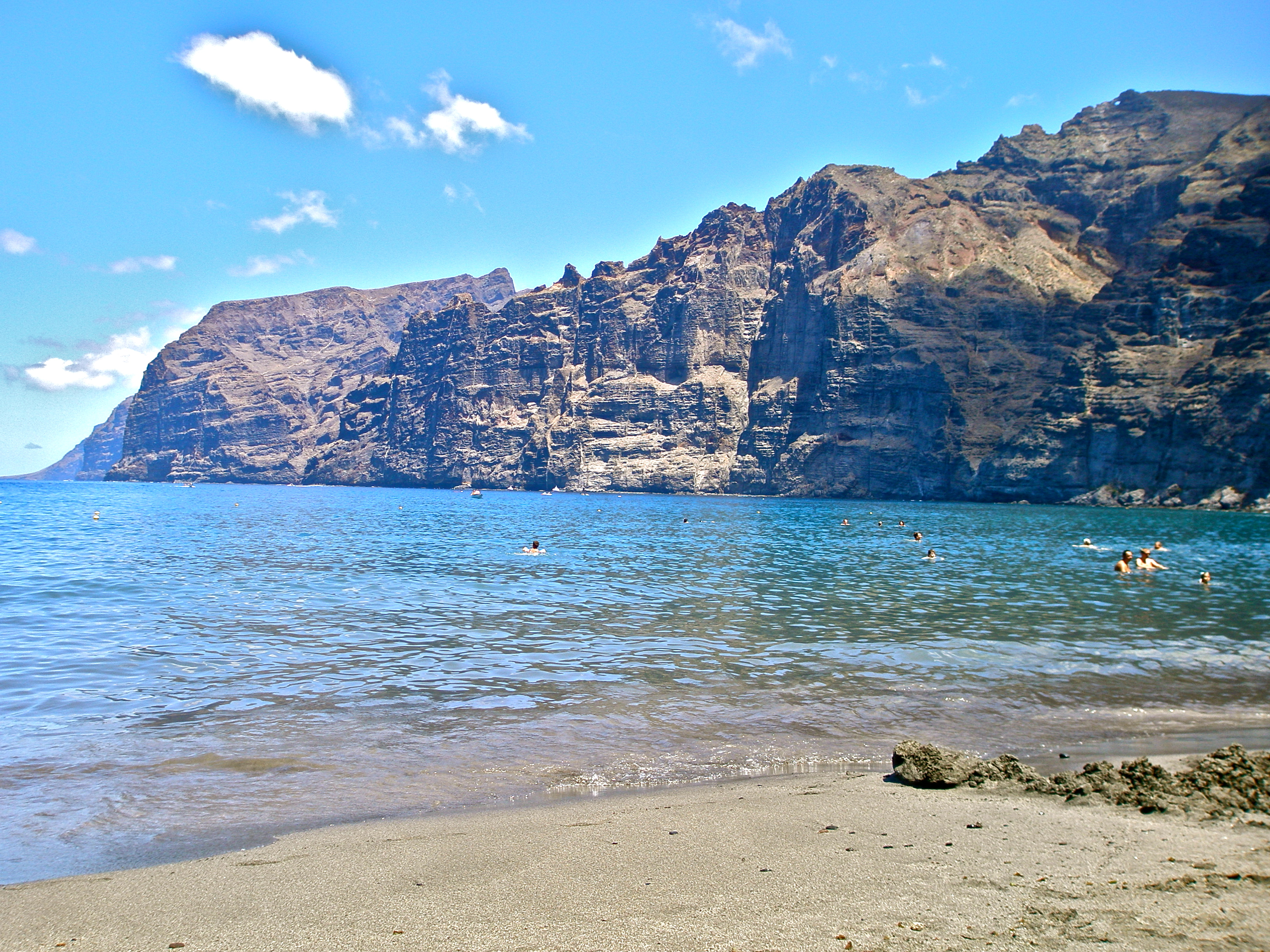 Los Gigantes, Tenerife